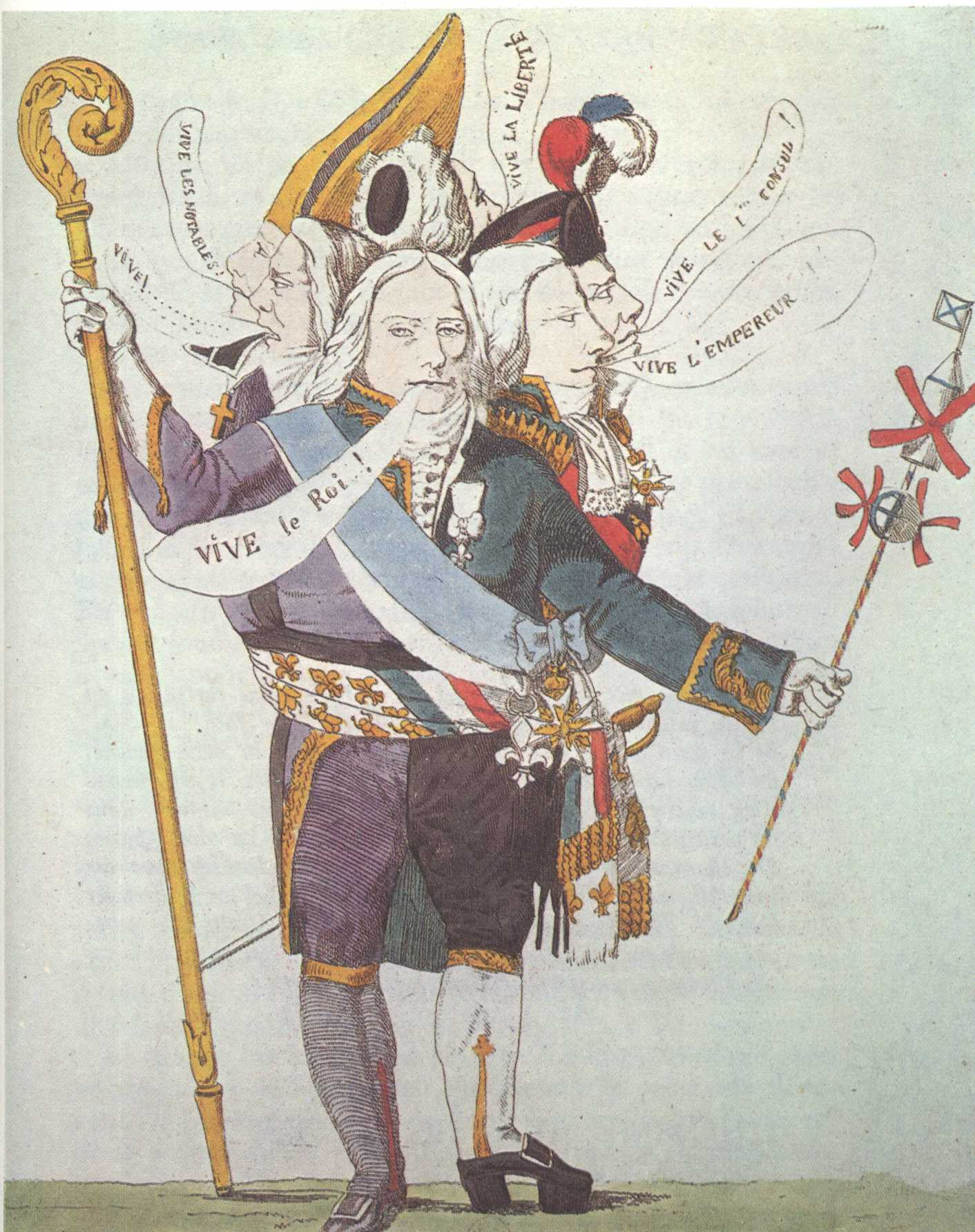 Caricature of French diplomat and statesman Charles Maurice Talleyrand-Perigod alluding to his proclivity to "float with the tide". First published in 1815 as "L'Homme aux six tetes. Le Nain jaune" (the six-headed man [referring to Talleyrands prominent role in six different regimes: As Bishop of Autun during the reign of Louis XVI, as a member of the National Convention during the French Revolution, as Foreign Minister during the Directoire Era, as Foreign Minister of Napoleon the Consul and Napoleon the Emperor and finally as Foreign Minister and Minister President of the re-established Bourbon Monarchy)]